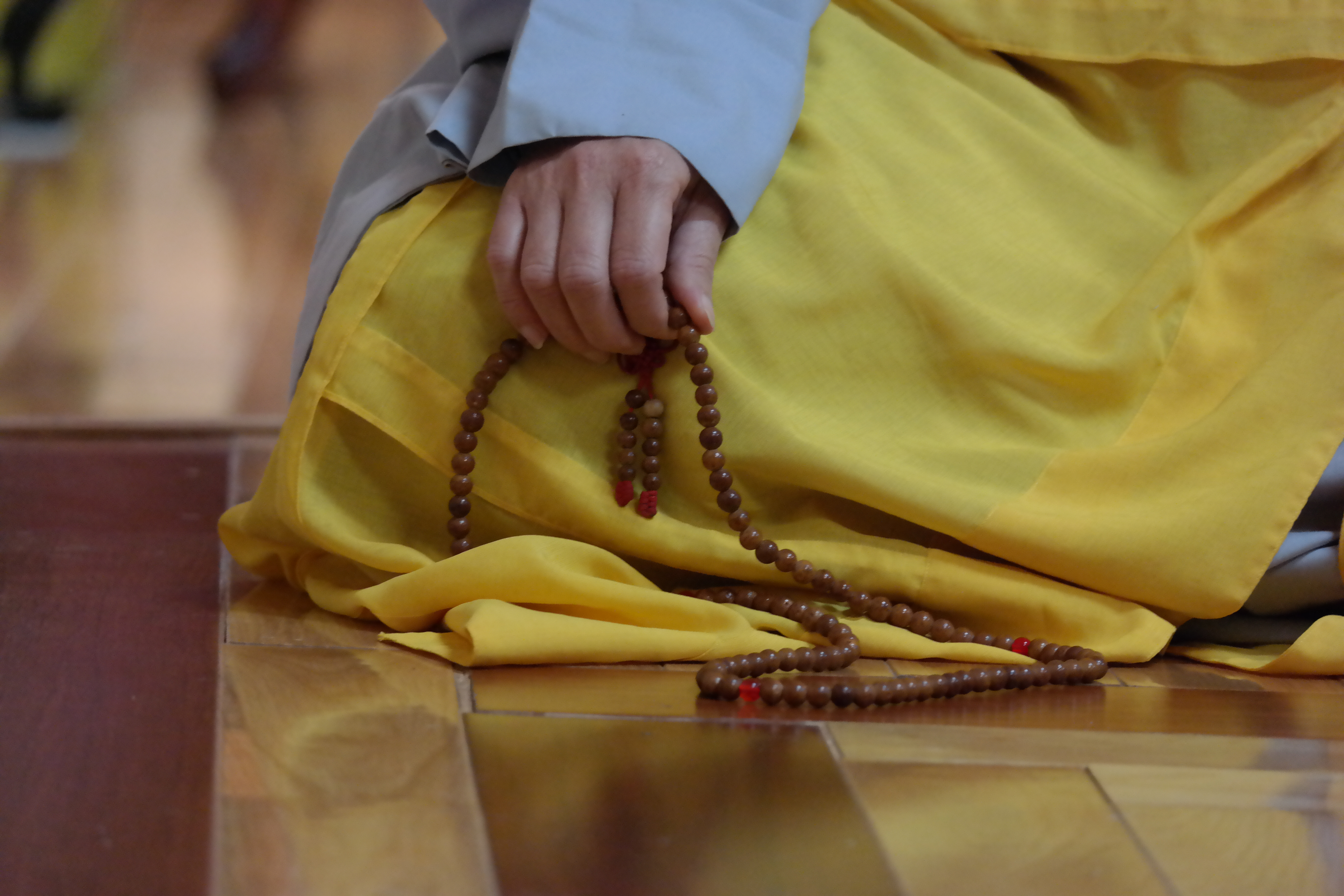 Buddhist mala beads in a Vietnamese-American nun's hand.